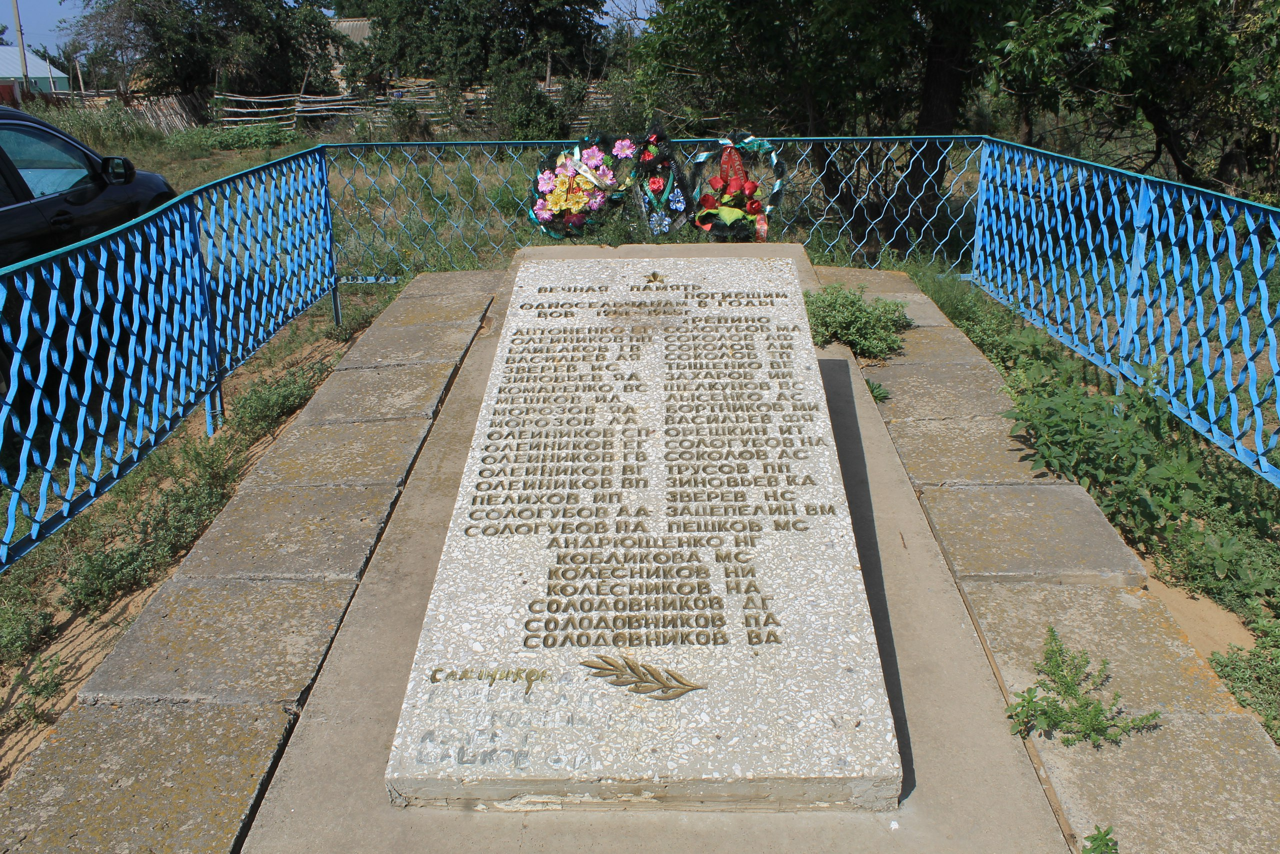 В центре хутора Репино у колодца расположен памятник с фамилиями погибших односельчан в годы "Великой Отечественной Войны"